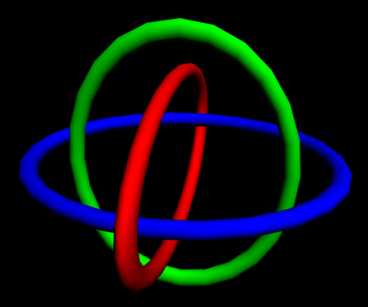 3D image of Borromean Rings